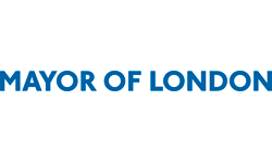 Mayor of London's simple public logo